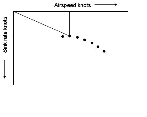 Author is the uploader User:Jsmcc150